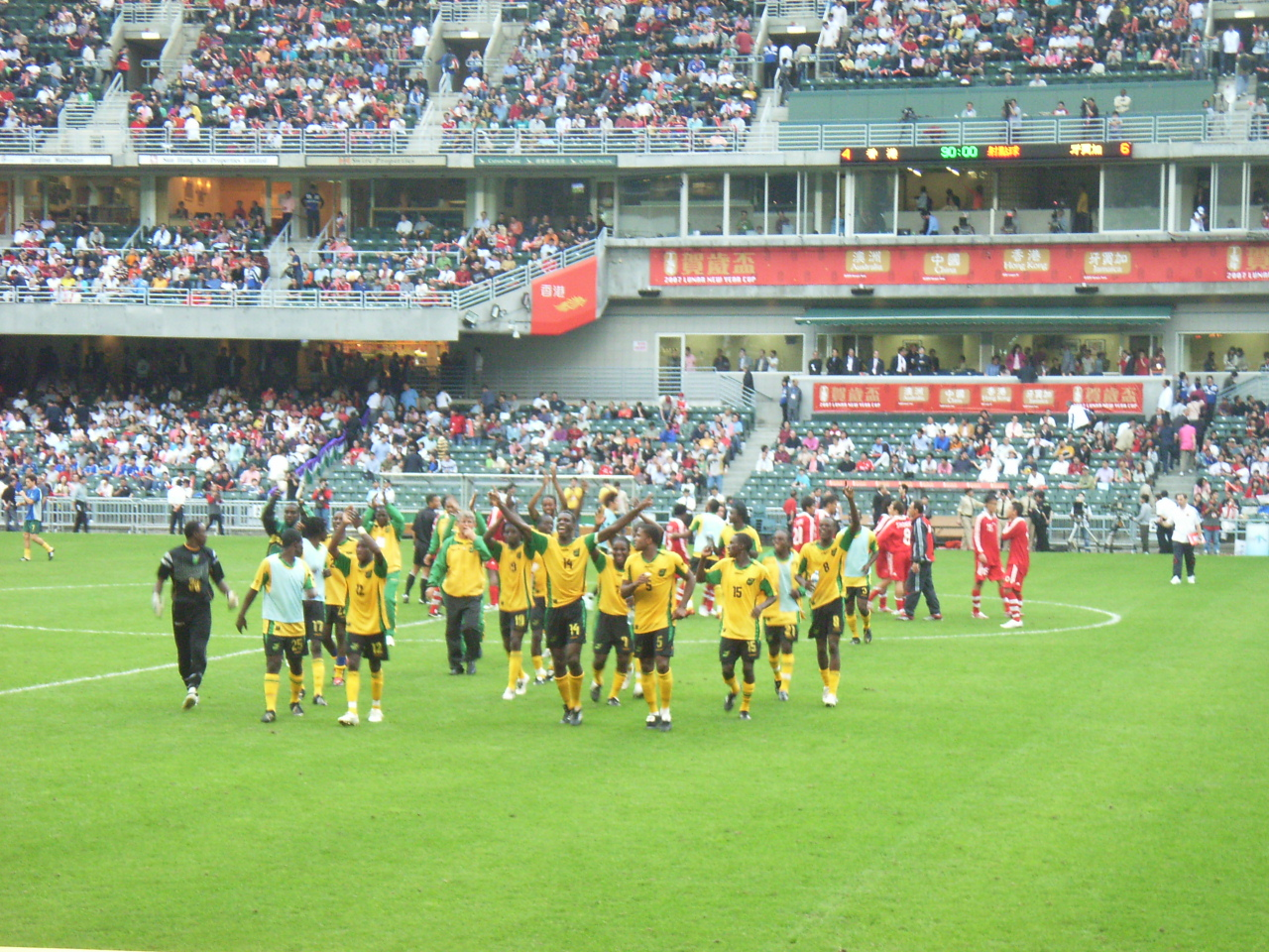 牙買加國家奧運足球隊, 賀歲盃足球賽, Carlsberg Cup, 2007 Lunar New Year Cup. Photo author is me.